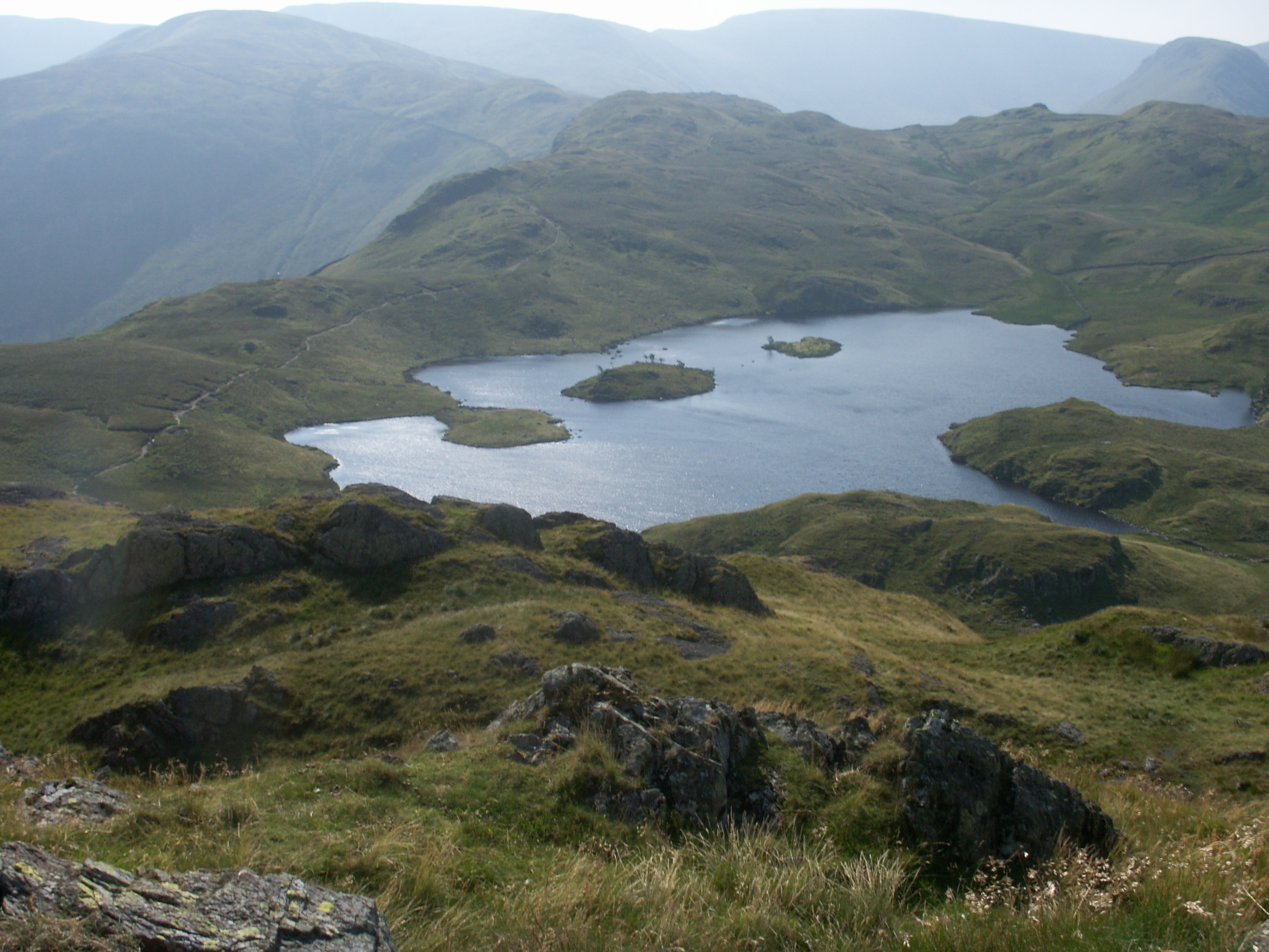 Angle Tarn from Angletarn Pikes, Lake District, England